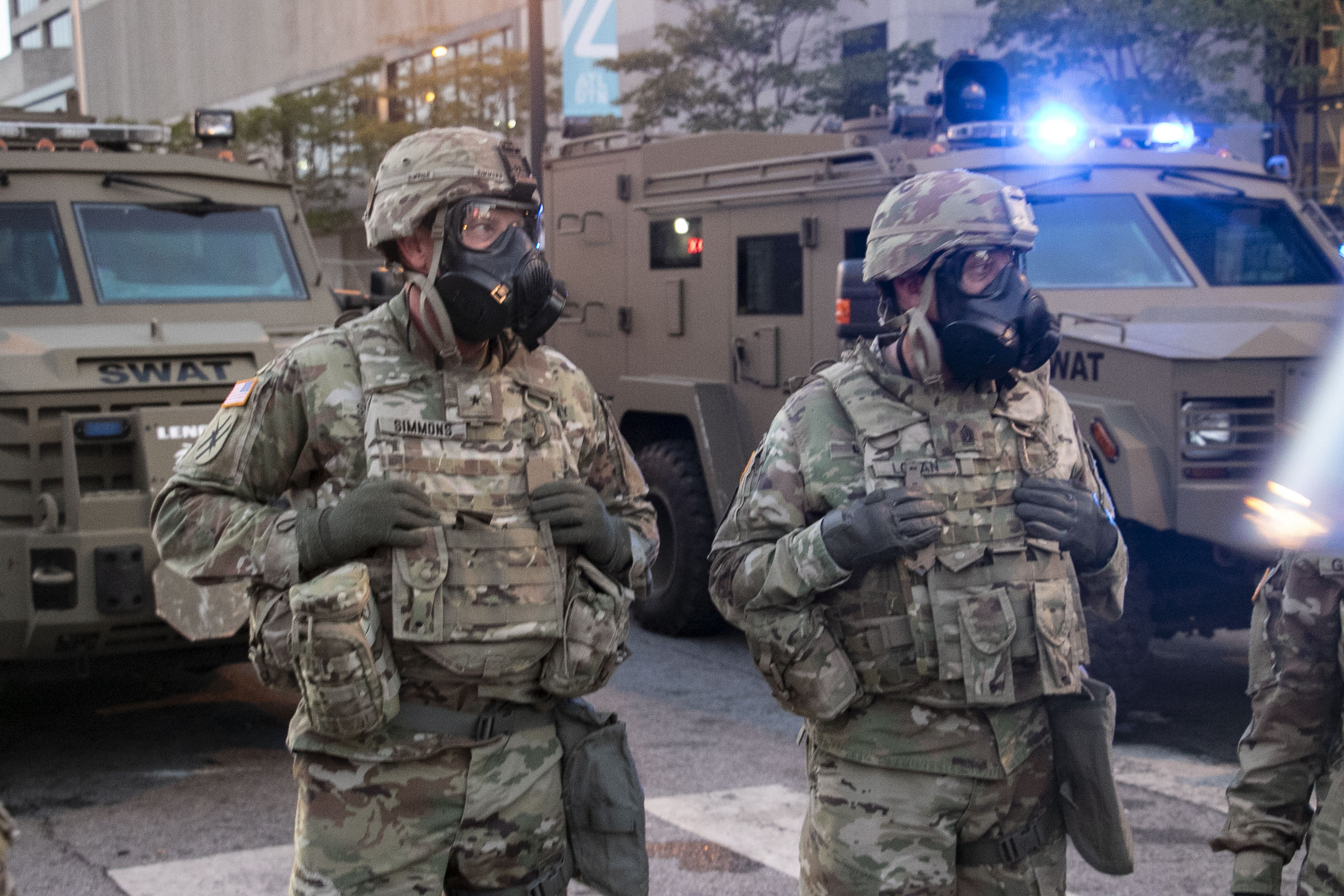 Brigadier General Randall Simmons and Command Sgt. Maj. Jeff Logan maintain situational awareness during protest demonstrations in Atlanta near Centennial Olympic Park June 1, 2020. (U.S. Army National Guard photo by Sgt. Jordan Trent)